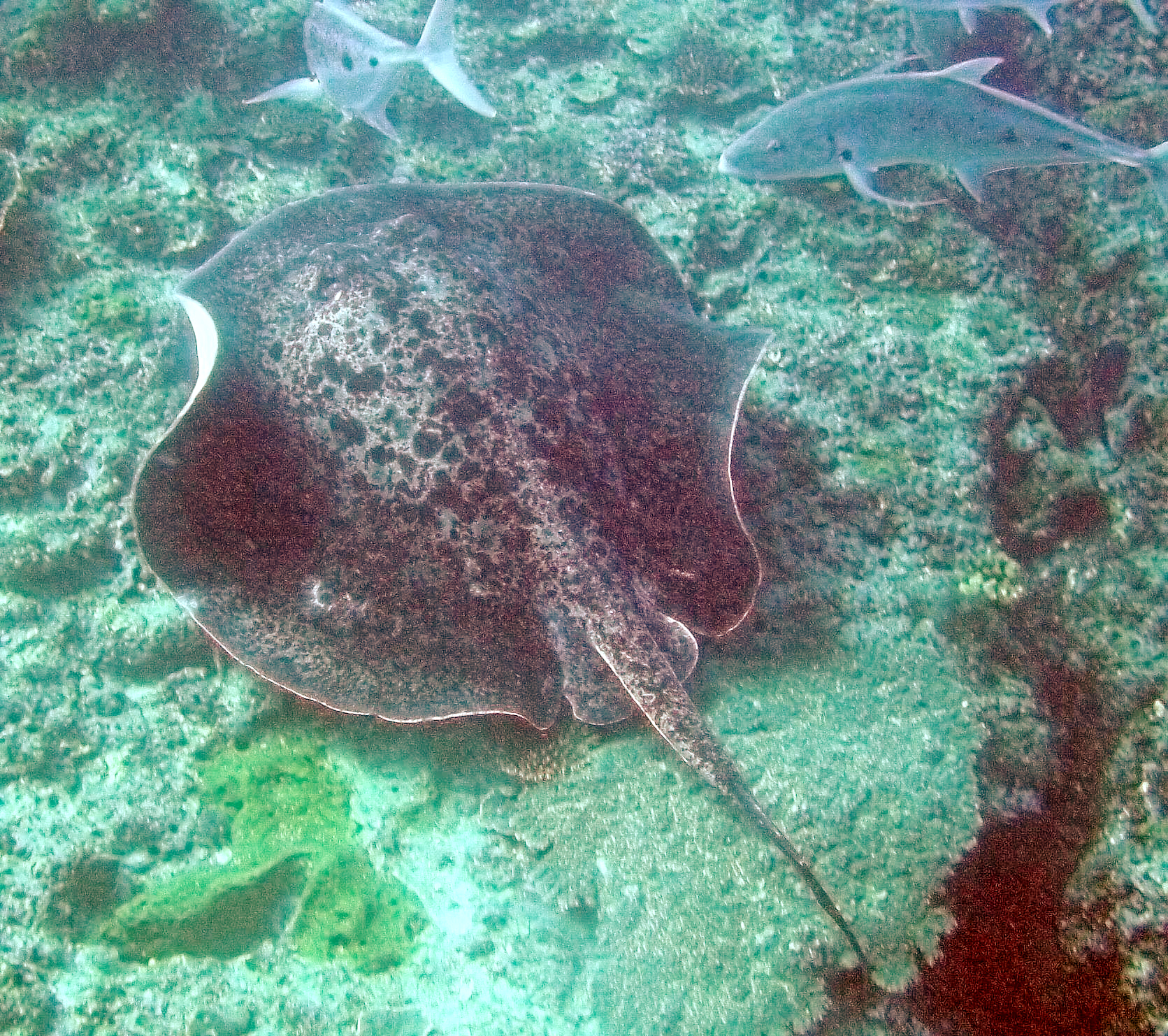 Blotched fantail ray (Taeniura meyeni) at Ningaloo Reef, Australia.